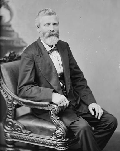 Lemons, Hon. Wm. Ferguson, Rep of Ark. Colonel in Price's Cavalry.